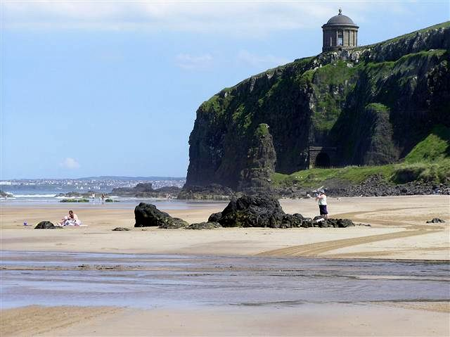 Downhill Strand, Derry / Londonderry The Mussenden Temple is perched on the cliff face